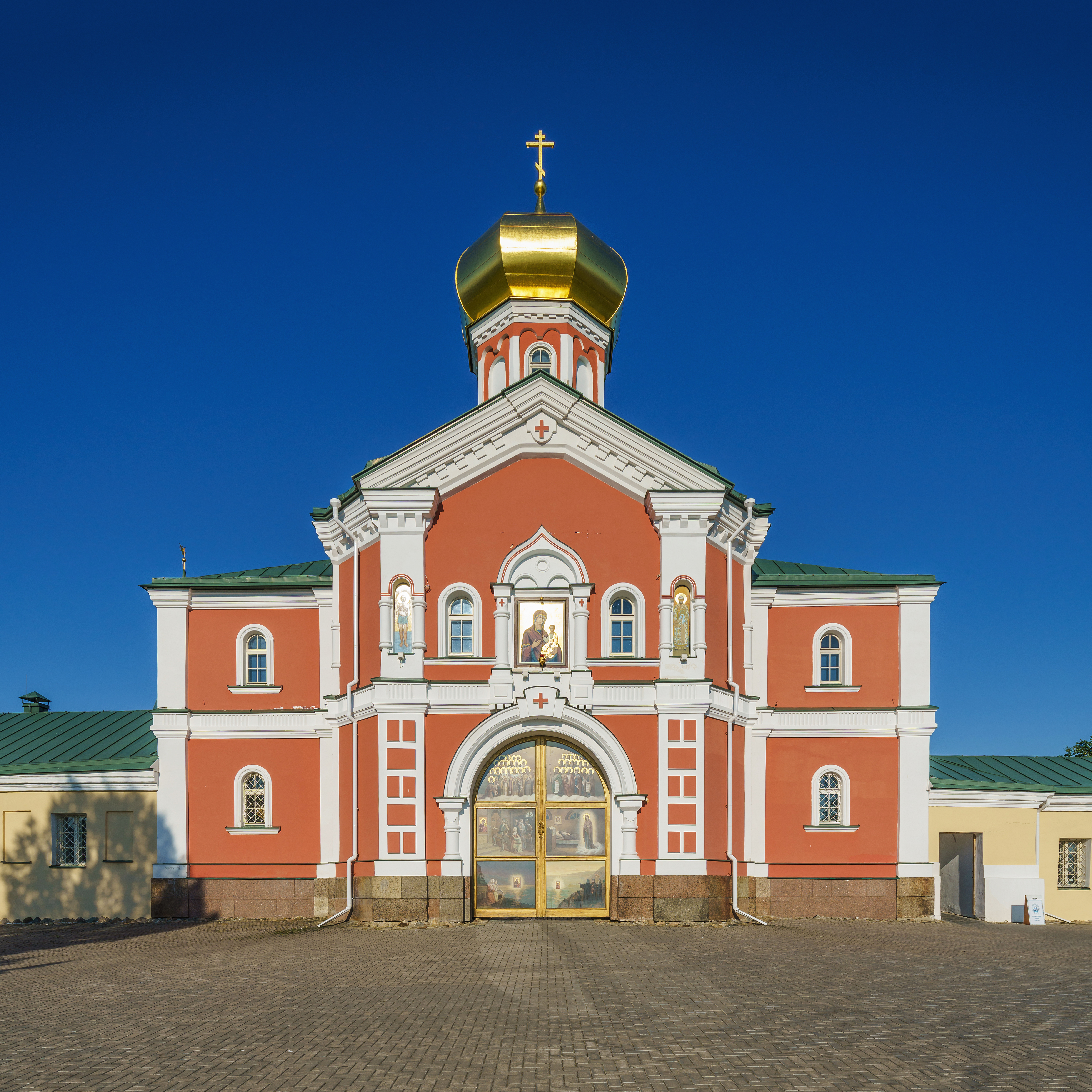 Gate church of Metropolitan Philipp in Iversky Monastery in Valdai, Novgorod Oblast, Russia.